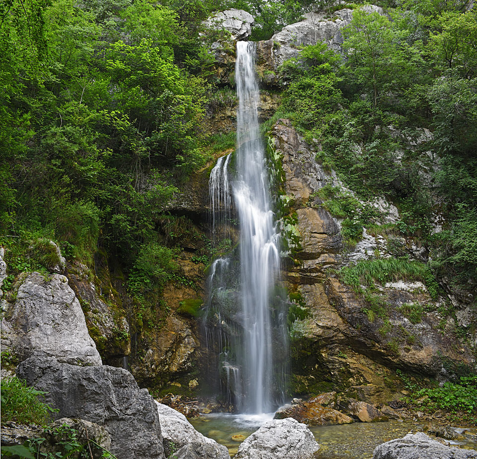 The 36 m high Beri waterfall is quite popular, because it's reachable in 30 minutes from Poljubinj village.